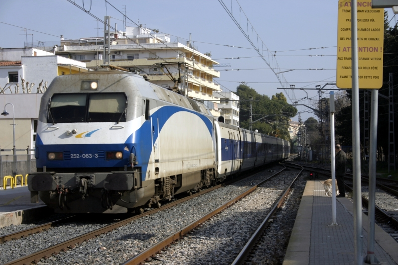 Talgo 463 Mare Nostrum passing througth Salou.